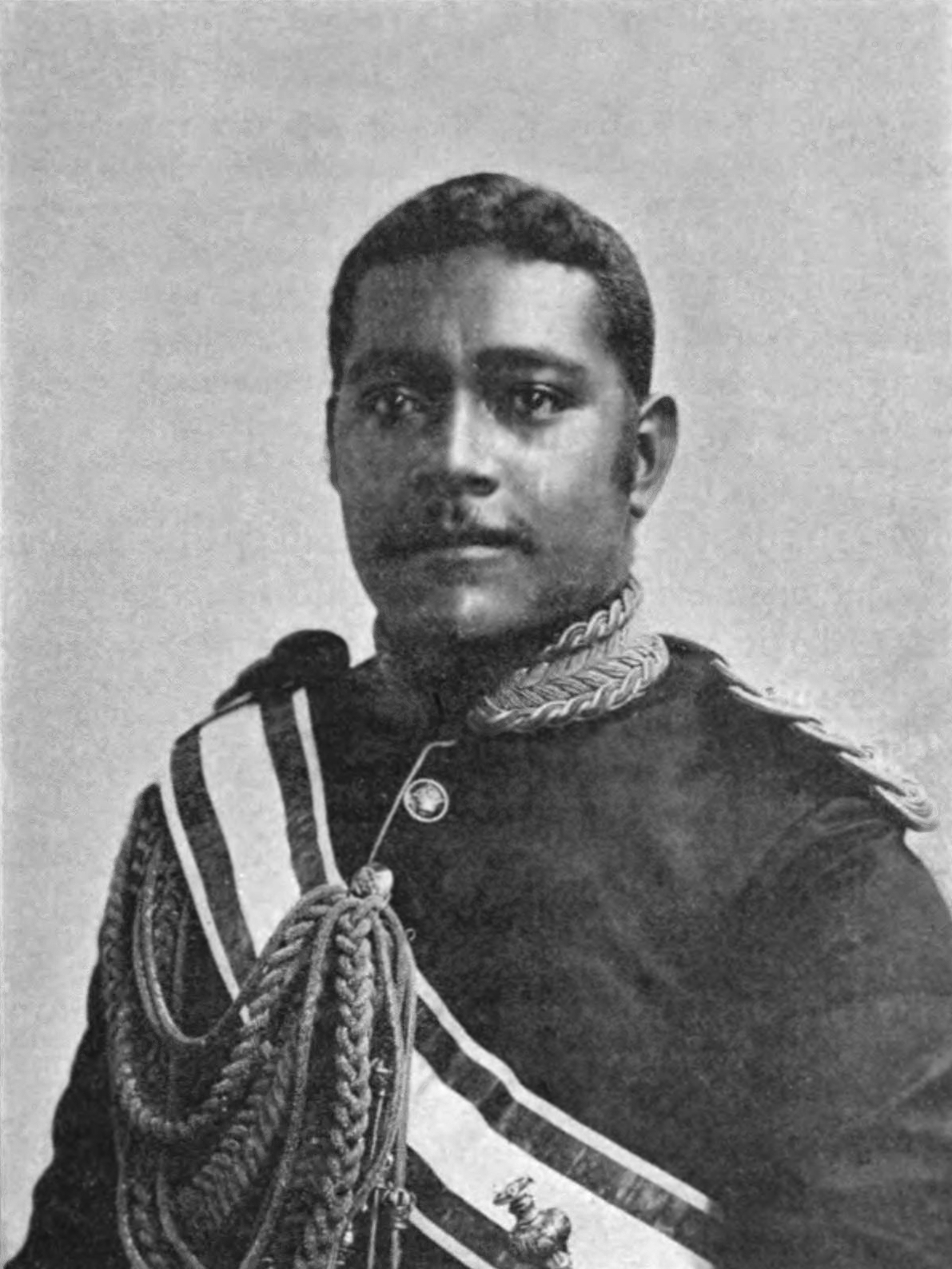 King George Tupou II of Tonga.